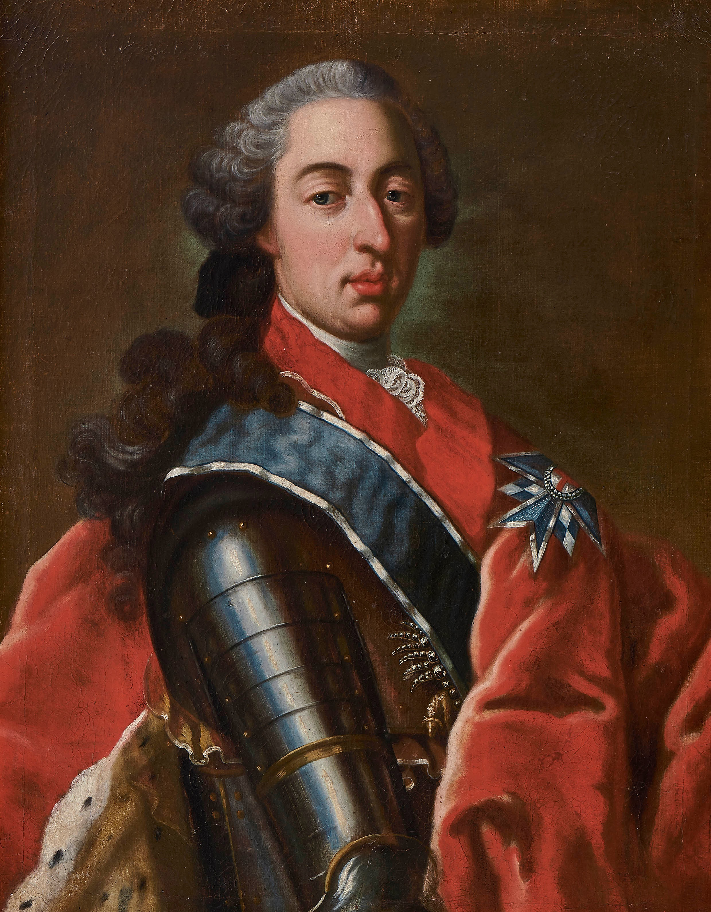 Duke Clement Francis of Bavaria (1722-1770)